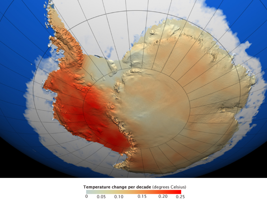 Analysis of weather station and satellite data, showing the continent-wide warming trend from 1957 through 2006.